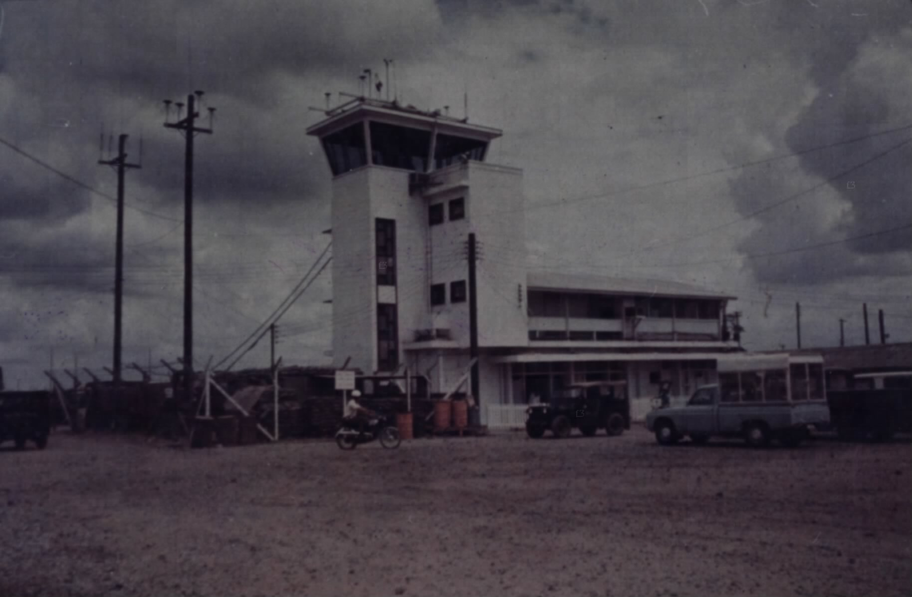 Passenger terminal and control tower of Can Tho Army Airfield.